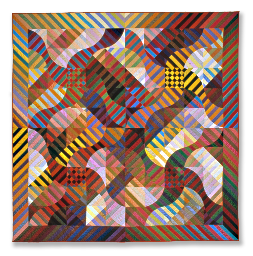 Quilt made in 1985 by Michael James as a commission for the Newark Museum, Newark, N.J. Collection, The Newark Museum.